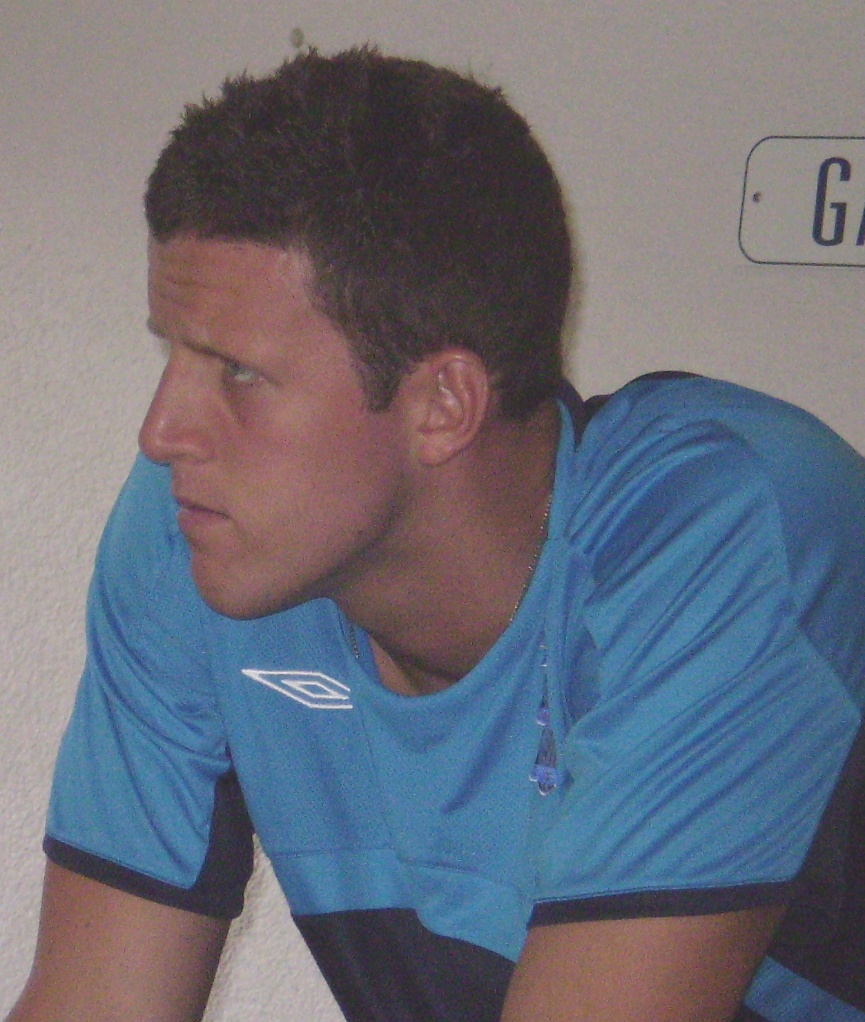 Ireland international footballer Colin Doyle of Birmingham City F.C. before the pre-season friendly against FC Augsburg in Westendorf, Austria